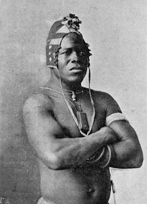 Diola